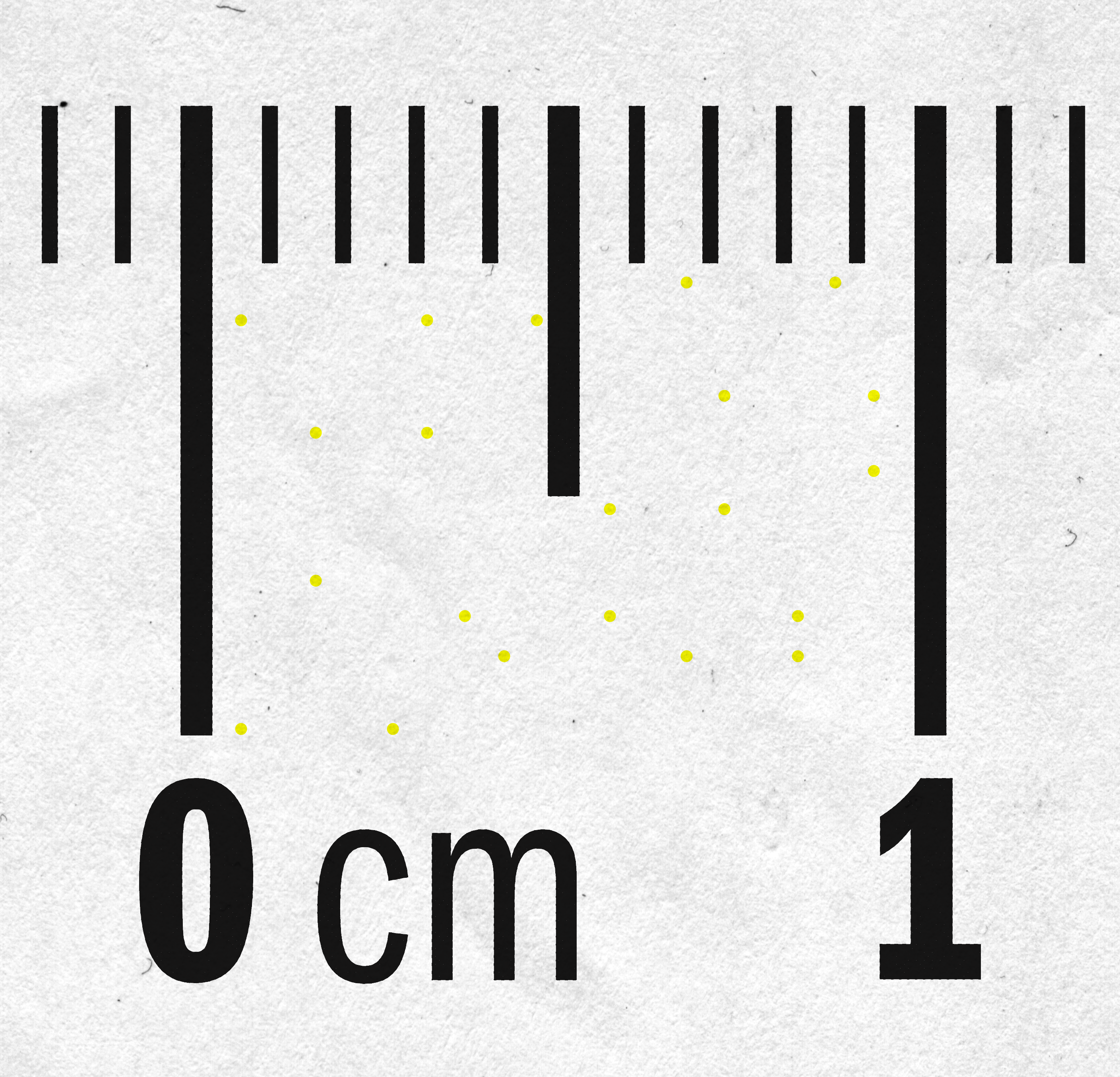 An illustration of printer steganography—yellow dots that many color printers produce to encode printing date, type of printer and printer ID.